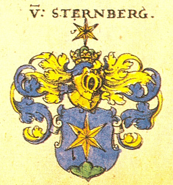 Coat of arms of Sternberg